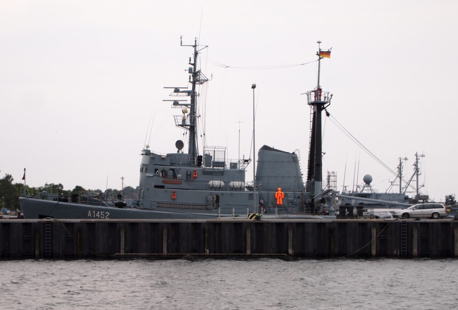 German military tugboat A1452 Spiekeroog in Kiel